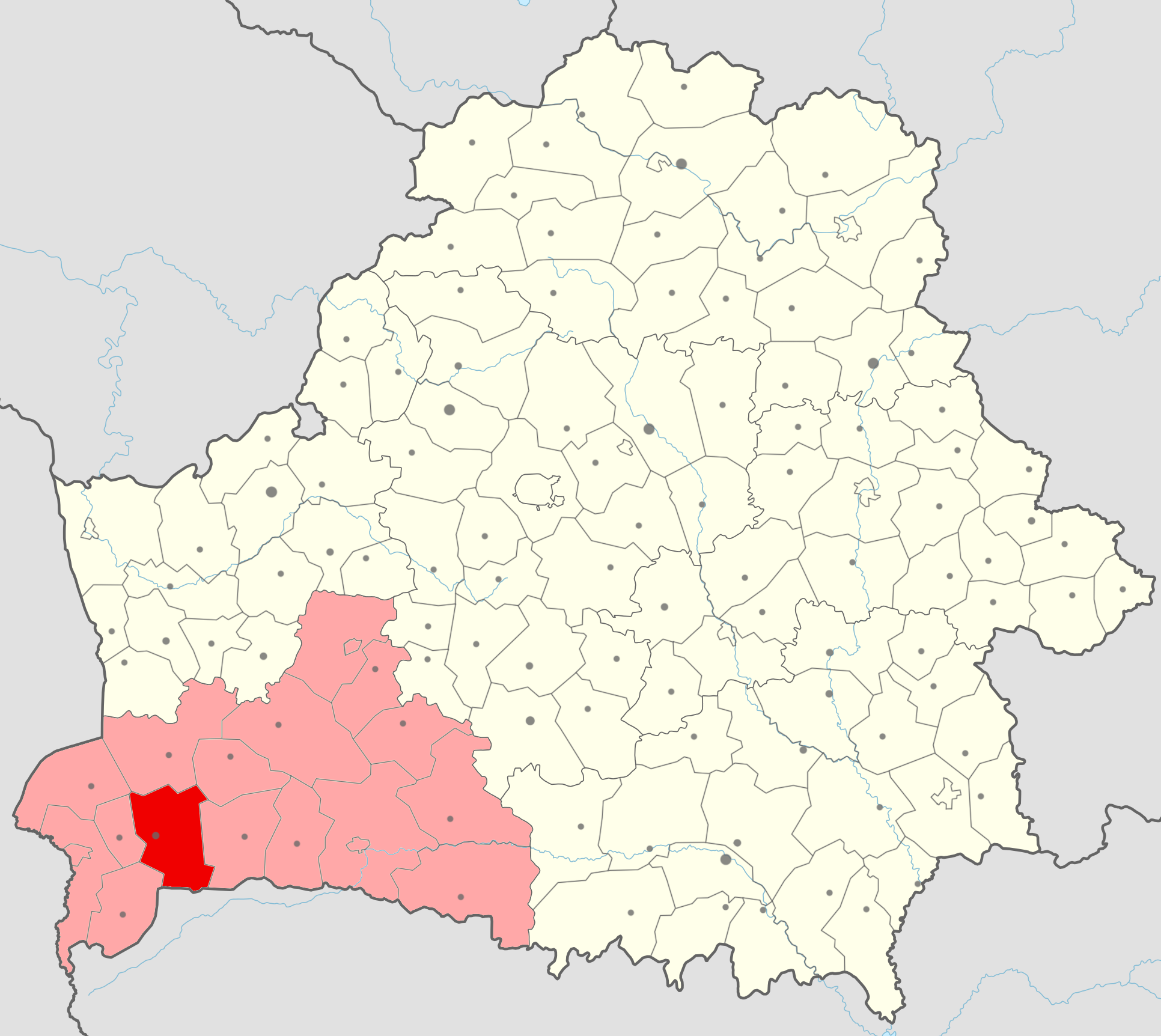 Location of Kobrynski rajon (red) in Bresckaja voblasć (light red) in Belarus.